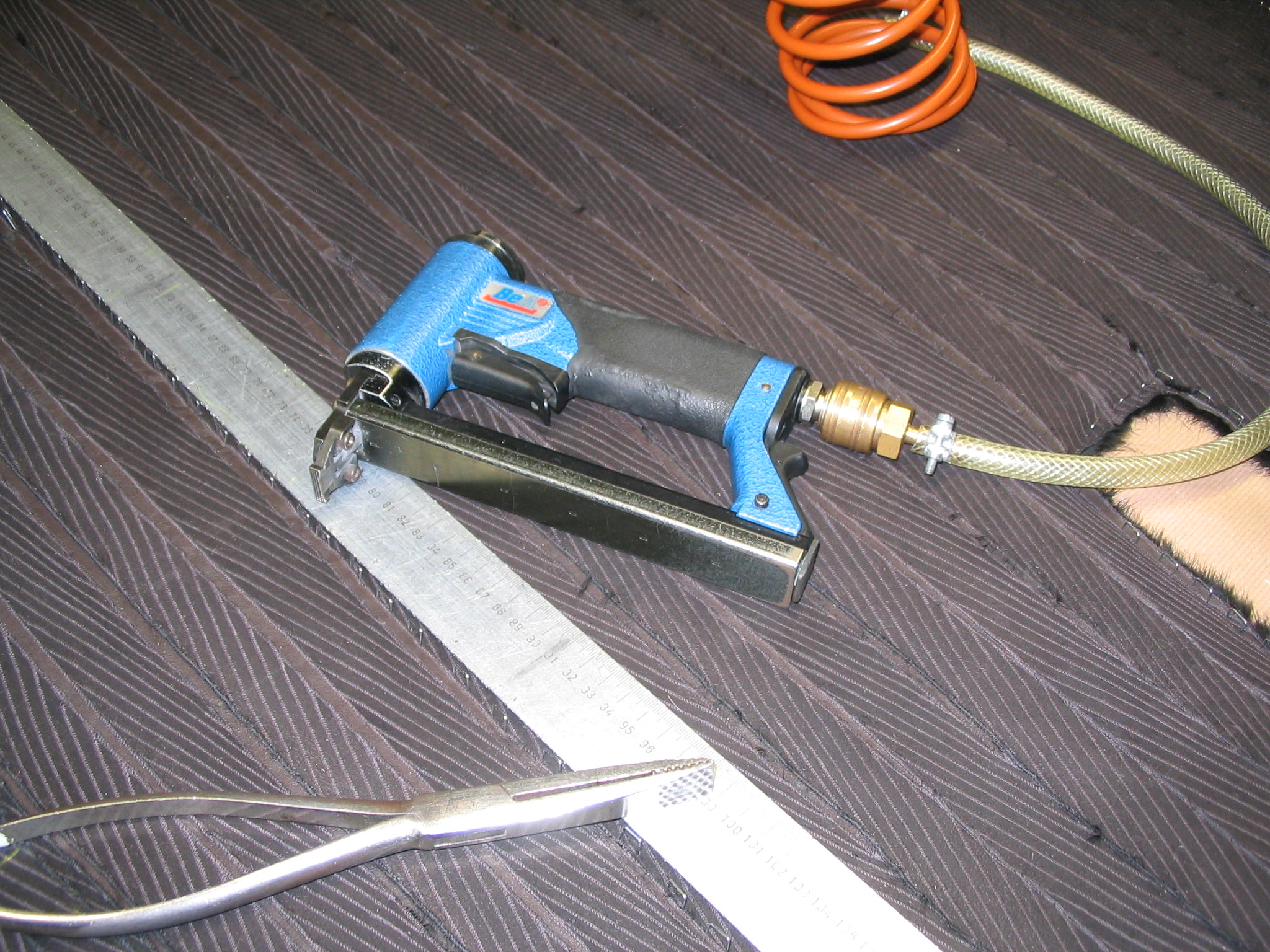 Furrier's tools: Staple gun (compressed air) on a nailed, let-out (‘stranded’) mink coat